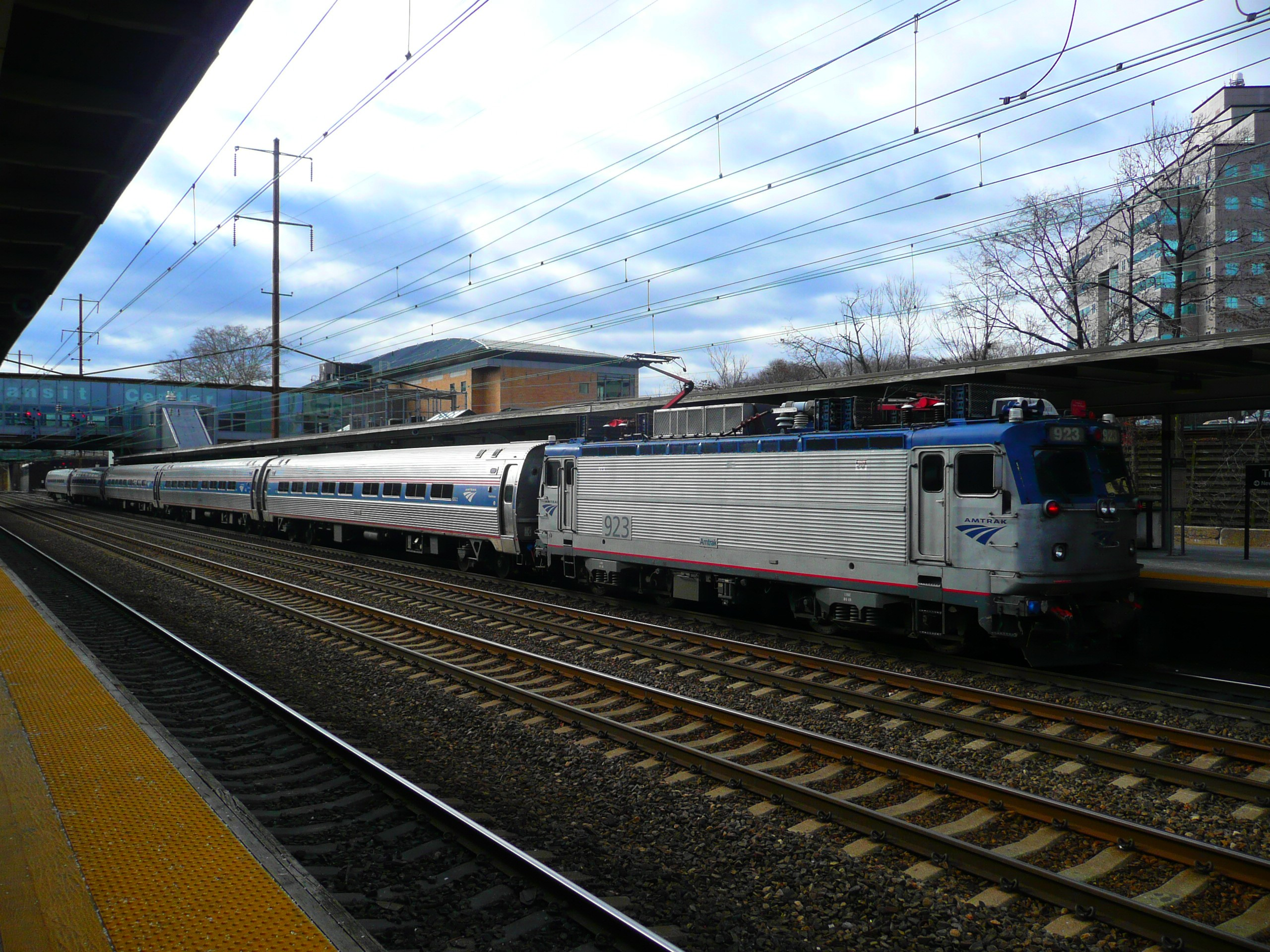 AEM-7 #923 pushes the Keystone Service train to Harrisburg, PA